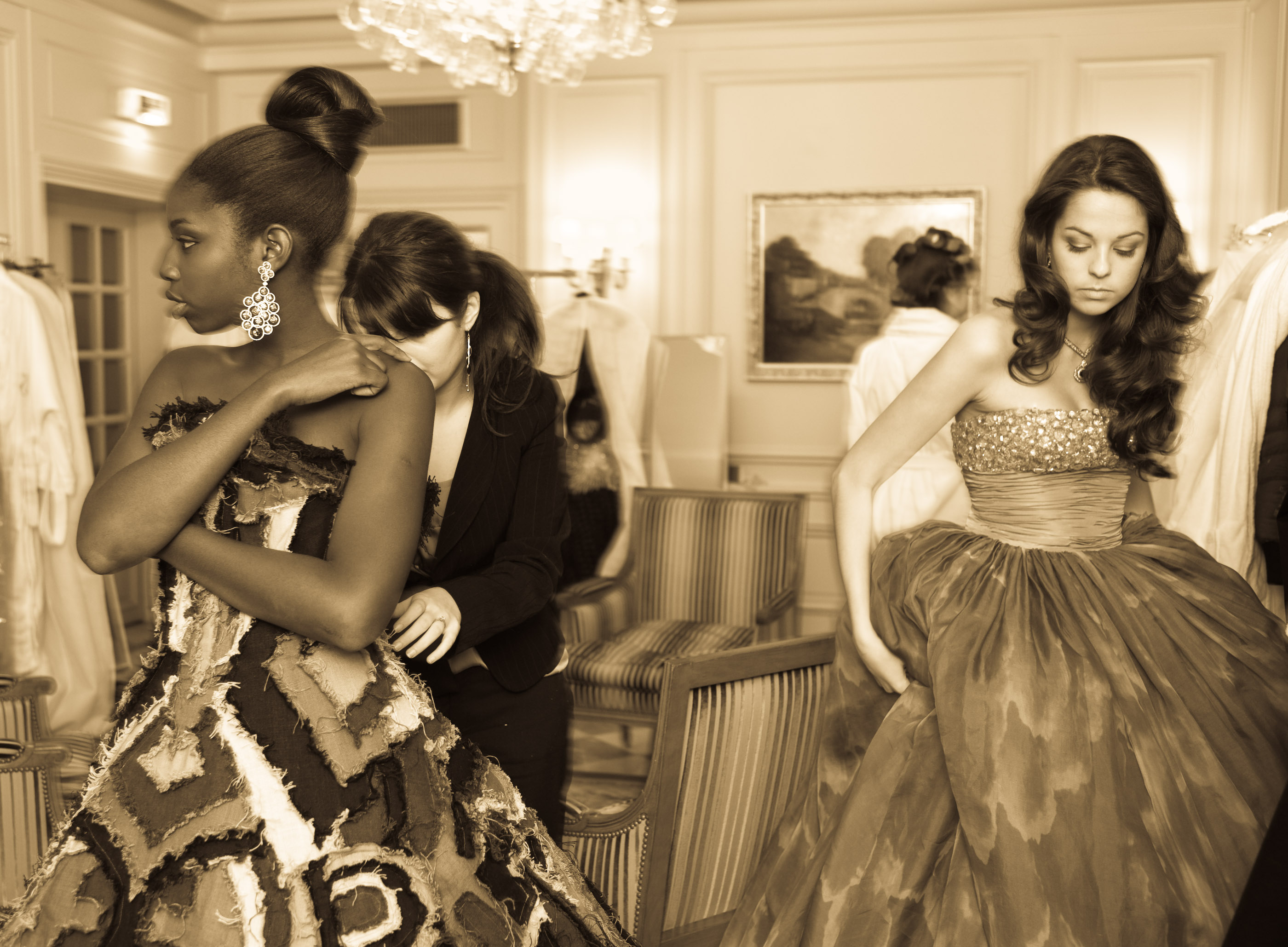 Sokhna Ndour and Anouchka Delon got dressed for le Bal 2008, a fashion event in Paris